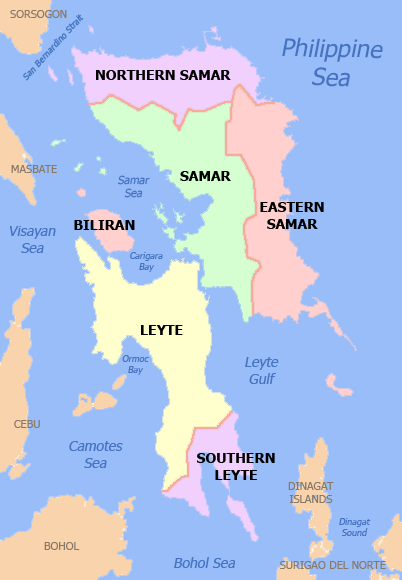 Political map of the Eastern Visayas Region, Philippines. Showing Biliran, Eastern Samar, Leyte, Hilagang Samar, Samar and Timog Leyte. Used the map template :Image:BlankMap-Philippines.png by User:TheCoffee.